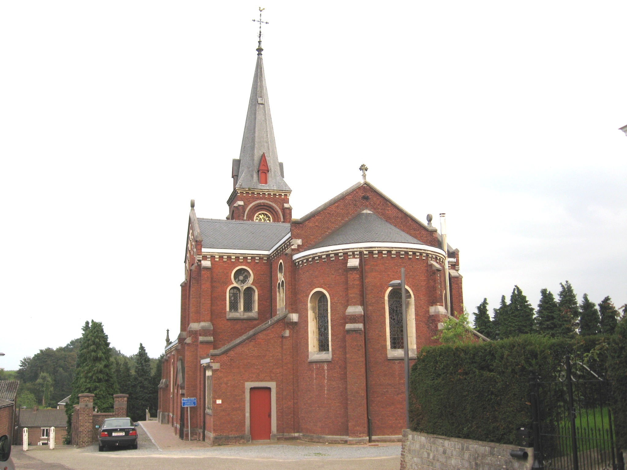 Church of Saint Martin in Groot-Gelmen, Sint-Truiden, Limburg, Belgium